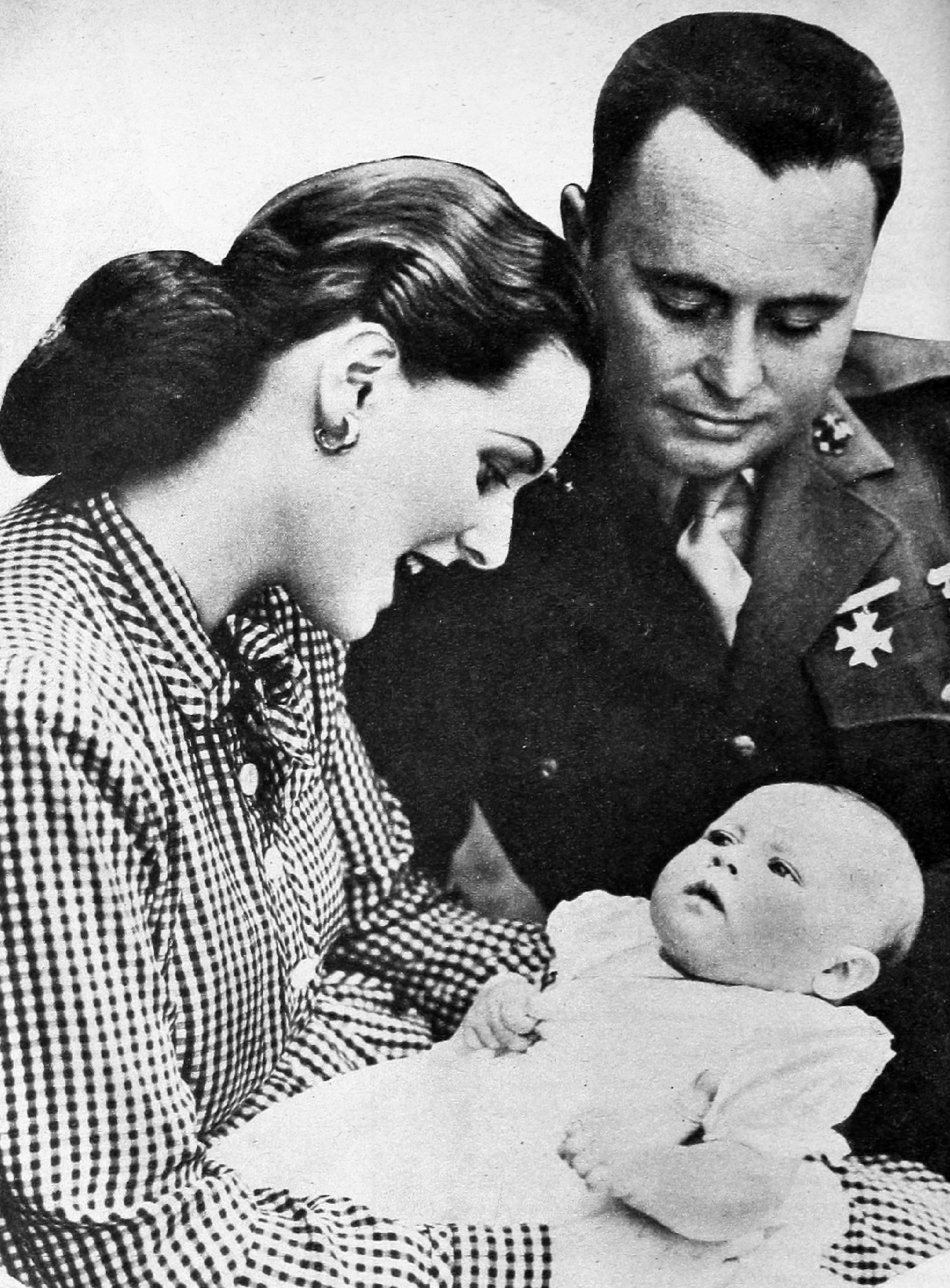 Photo of Maureen O’Hara, husband Will Price and baby daughter, Bronwyn.